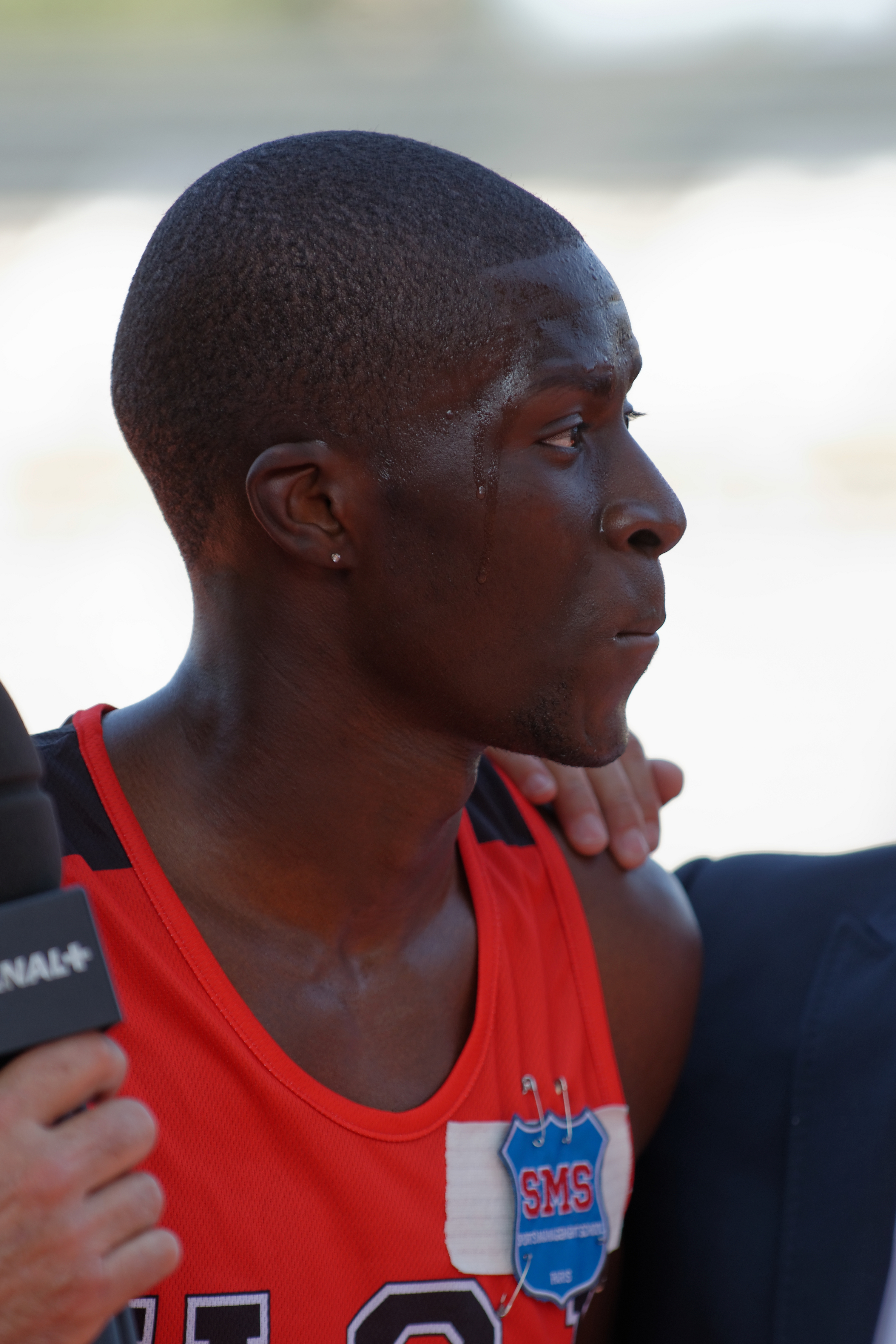 Mame-Ibra Anne answers the press after he won the men's 400-metre race in 46″05 during the French Athletics Championships 2013 at Stade Charléty in Paris, 13 July 2013.